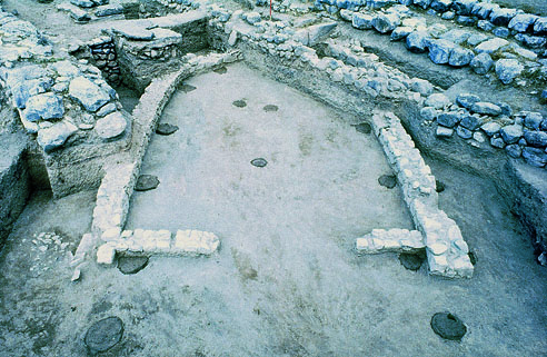 temple of Apollo